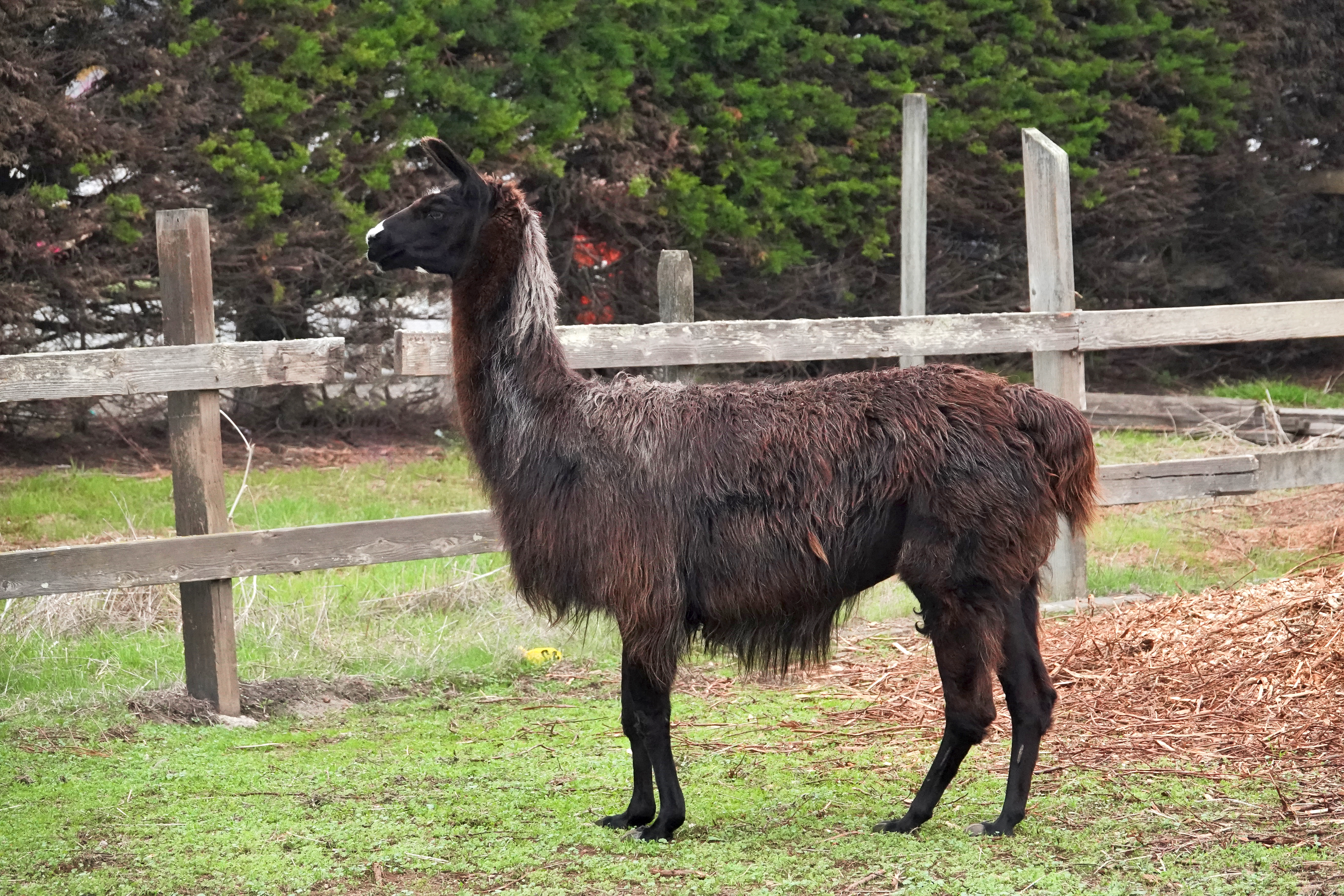 Picture of a black Llama.